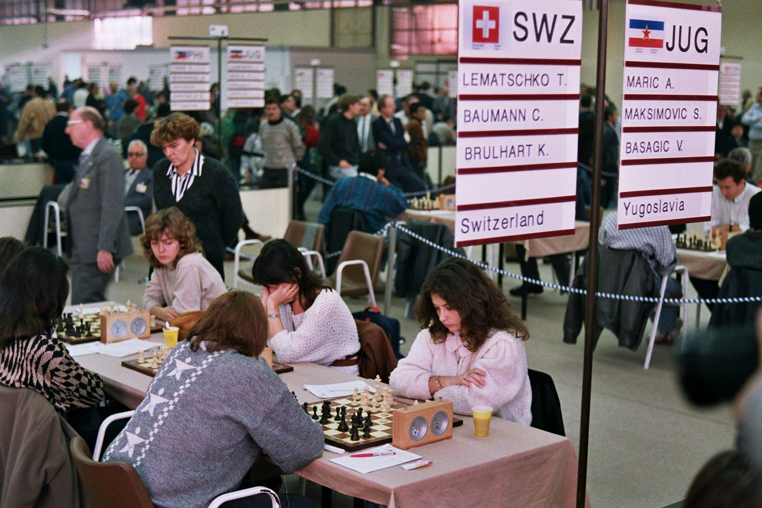 Wimen of Yugoslavia, Chess Olympiad 1988 in Thessaloniki, Photographer Gerhard Hund.